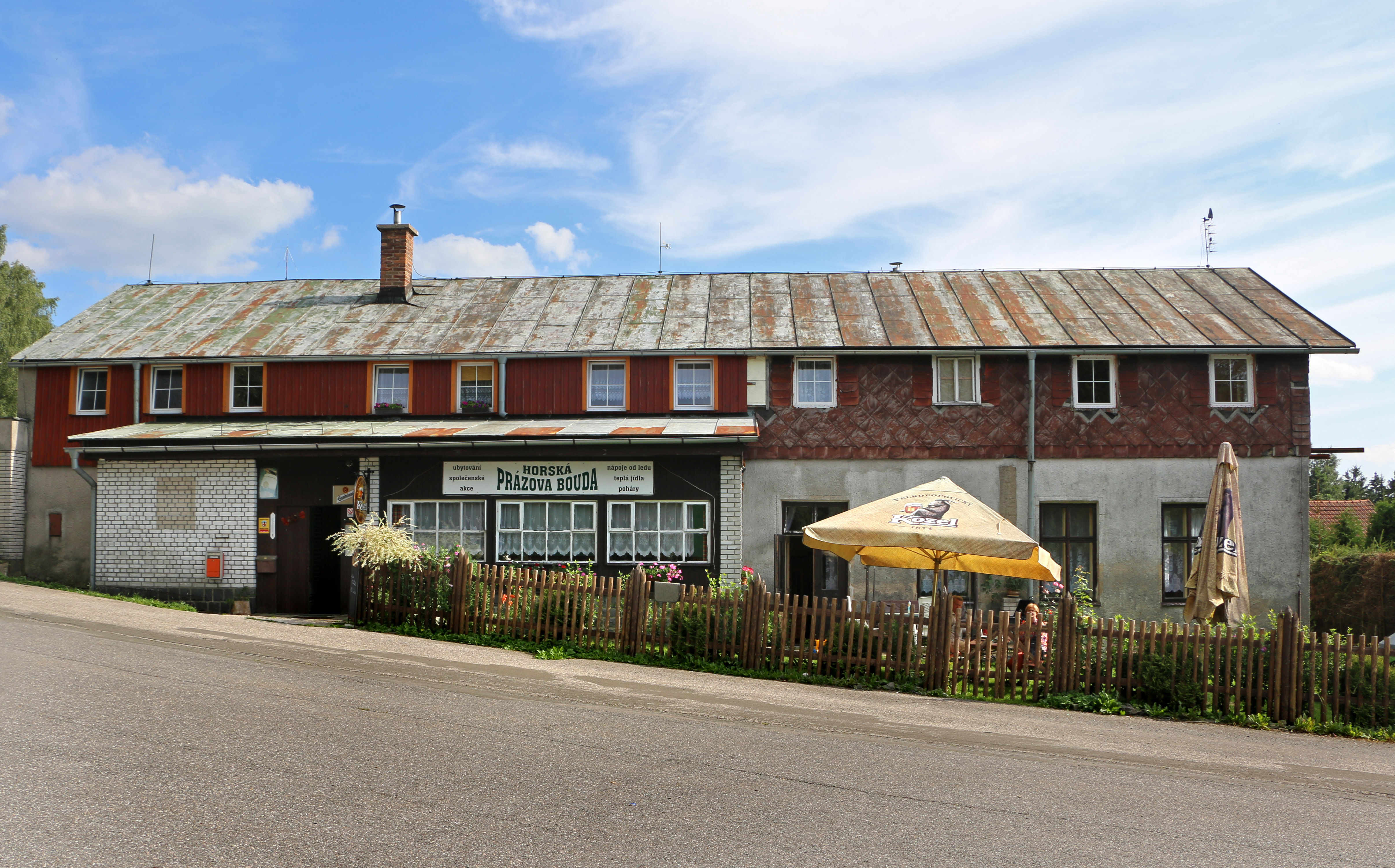 Prázova bouda restaurant in Šediviny, part of Dobré, Czech Republic.